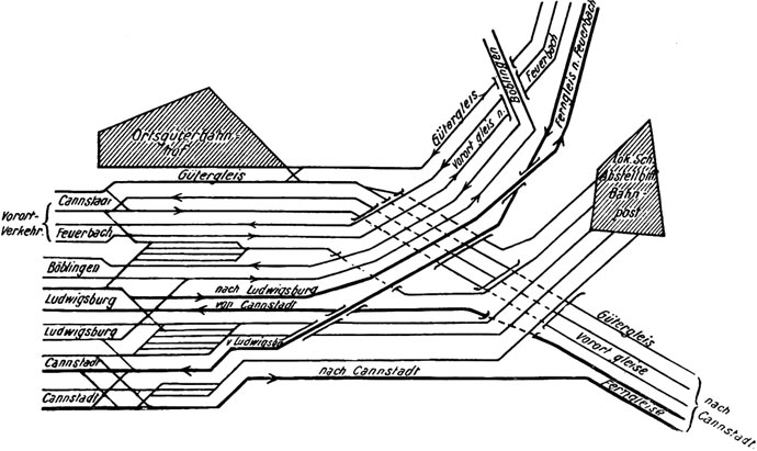 Track Layout of Stuttgart Central Station as of 1912